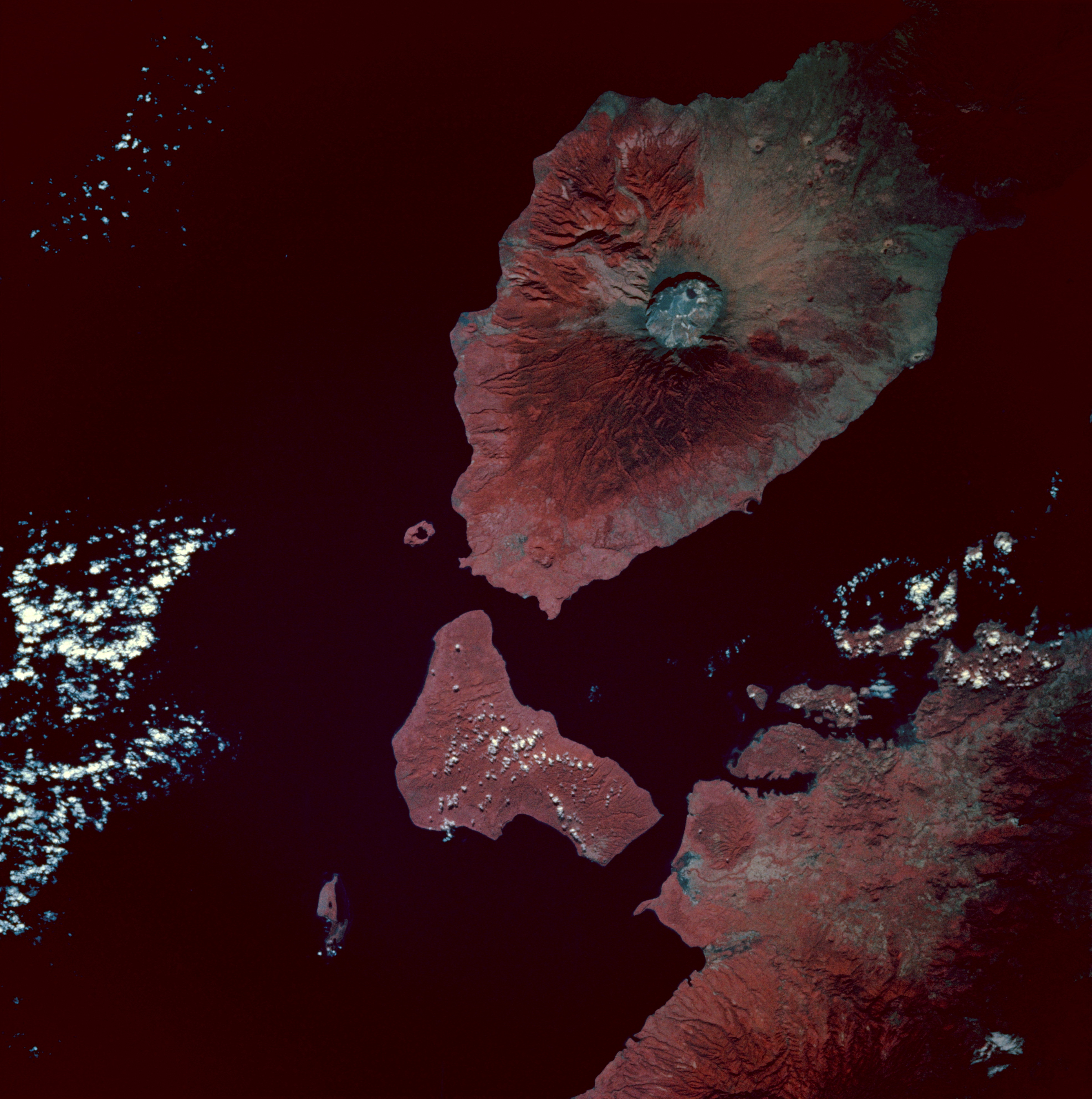 Infrared image of Mount Tambora, Sumbawa Island, Indonesia. Taken from the space shuttle Endeavour at 0:54 GMT on 13 May 1992. Description from [1]: The most striking geologic feature in this photograph is the large circular Tambora Volcano caldera, the diameter of which is slightly more than 3 miles (5 kilometers). Prior to the disastrous eruption of 1815 when the volcano blew away most of its top, Tambora’s summit was approximately 13 000 feet (4000 meters) above sea level. The present elevation of the caldera rim is more than 9000 feet (2700 meters) above sea level. Many geologists and volcanologists rank the 1815 eruption among the 10 most explosive eruptions of the modern era. Tambora, a classic stratovolcano with steep slopes and a symmetrical shape, is located on the north-central coast of Sumbawa Island, Indonesia, which is bordered on the north by the Flores Sea and on the southwest by Teluk Saleh Bay. Color infrared film, which displays green vegetation in varying shades of red, accentuates the distribution patterns of dense tropical vegetation surrounding the volcano and other land areas in the photograph.